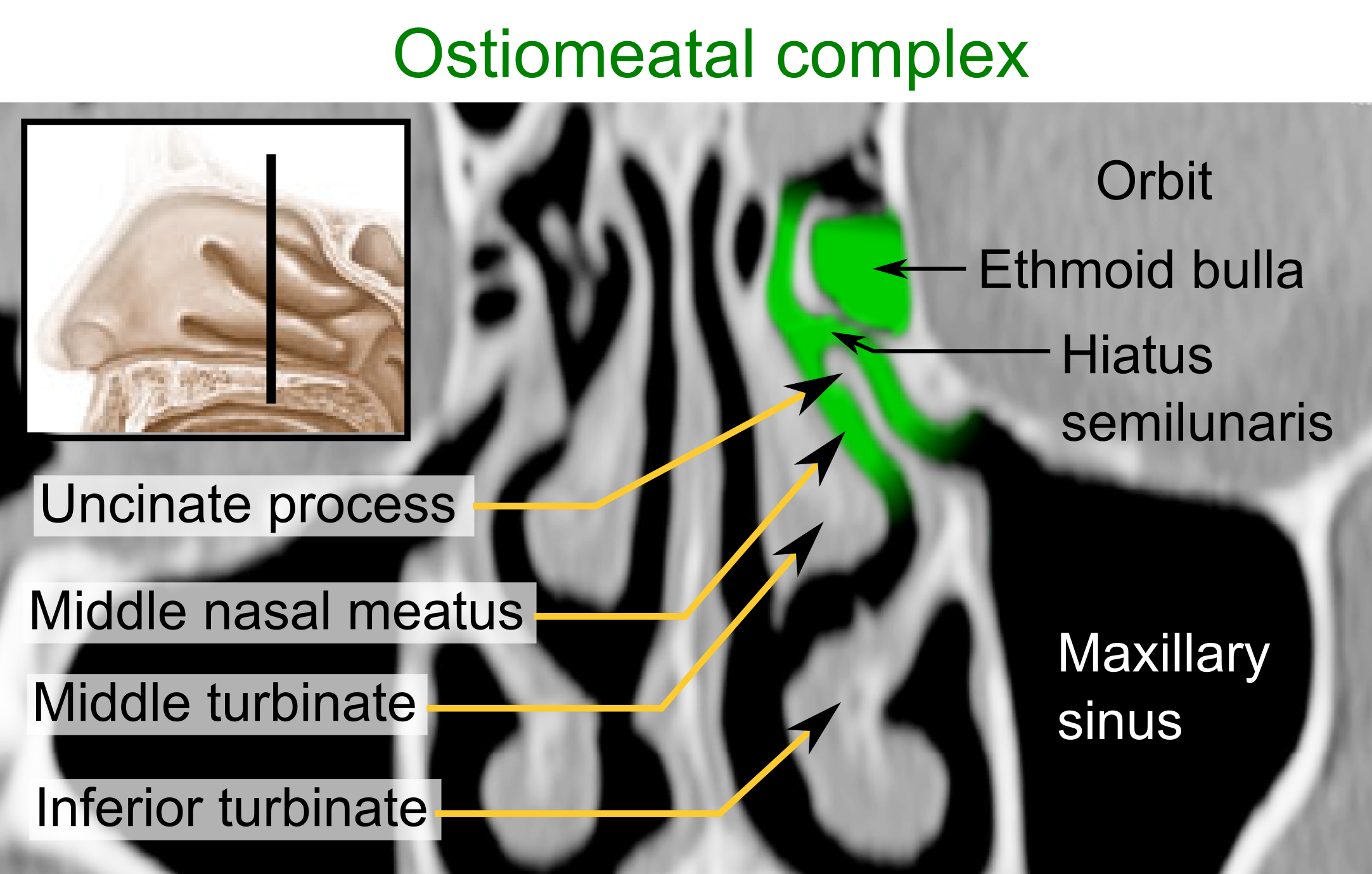 CT of the head in the coronal plane, showing the ostiomeatal complex.